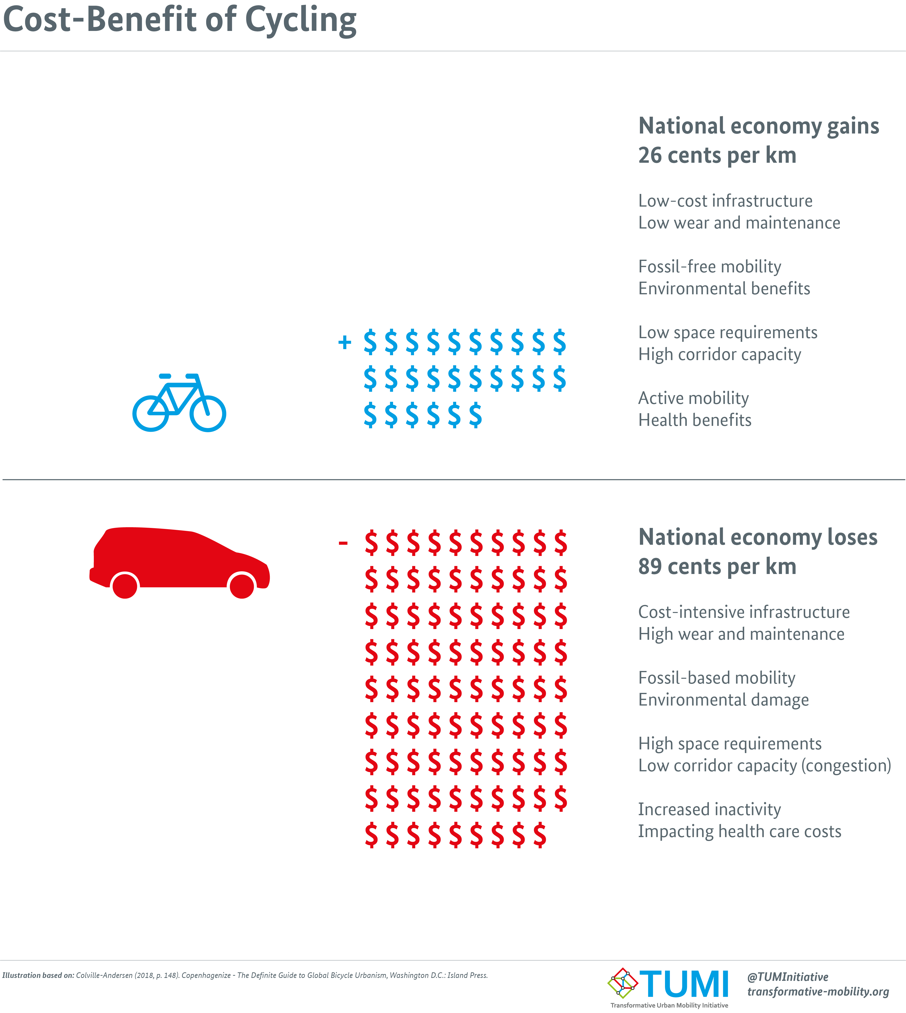 Cost-Benefit of Cycling Bicycle national economy gains 26 cents per km Low-cost infrastructure, low wear and maintenance, fossil-free mobility, environmental benefits, low space requirements, high corridor capacity, active mobility, health benefits Car national economy loses 89 cents per km Cost-intensive infrastructure, high wear maintenance, fossil based mobility, environmental damage, high space requirements, low corridor capacity (congestion), increased inactivity, impacting health care costs Transformative Urban Mobility Initiative (TUMI)